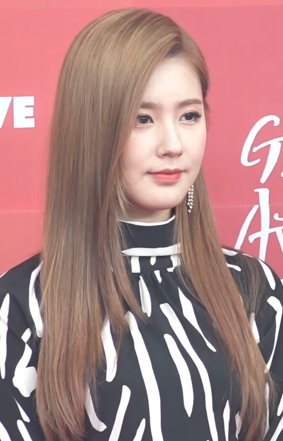 Cho Mi-yeon at 21st Parliamentary Election Pre-voting